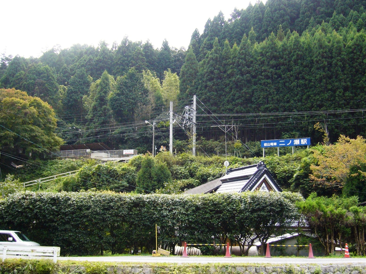 Ninose Station of the Eizan Electric Railway Kurama Line. View from the adjacent town; right side is the Kurama direction